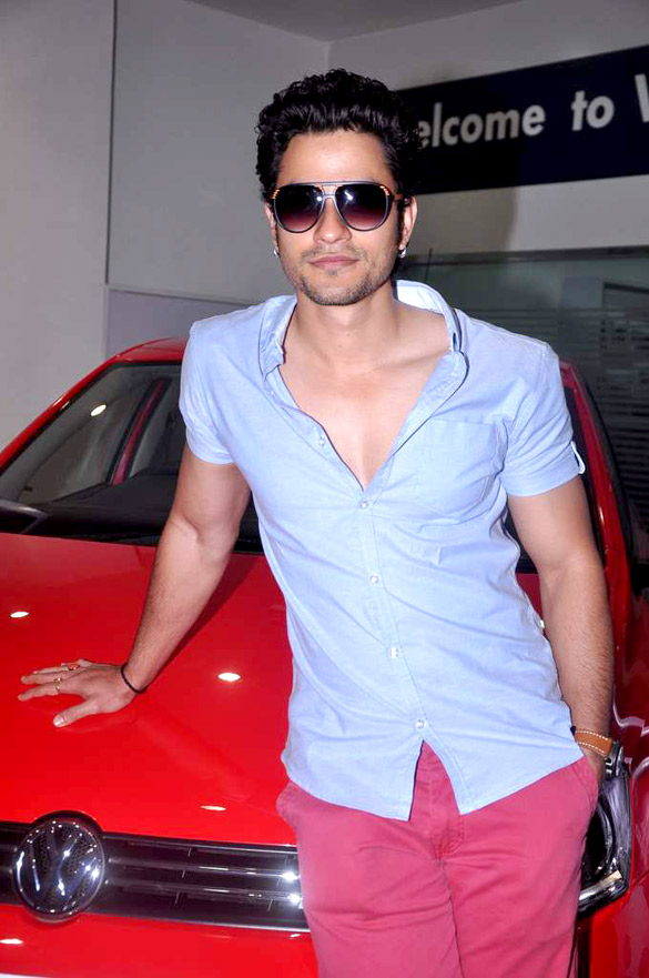 Kunal Khemu Promotions of 'Go Goa Gone' in association with Volkswagen